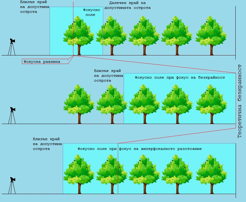 A tool for illustrating hyperfocal distance focusing against object and infinity focusing with caption in Bulgarian.